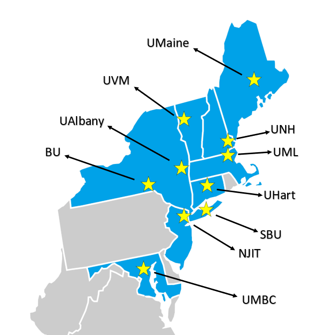 AEC Members Locations